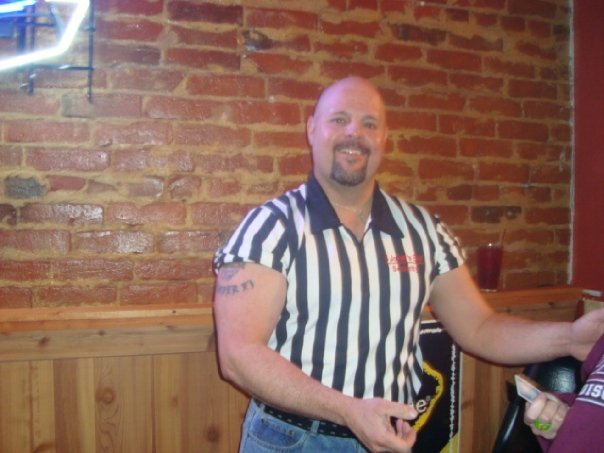 notable bouncer -- Terry McPhillips -- checking ID"s and greeting customers with a smile!